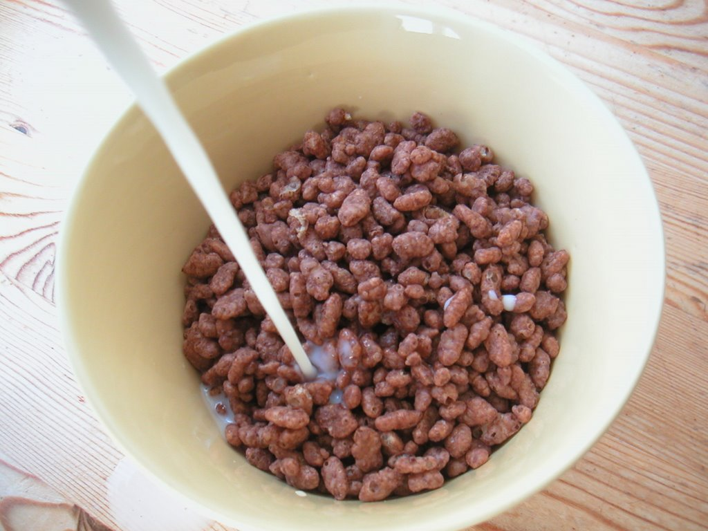 Kellogg's Cocoa Krispies